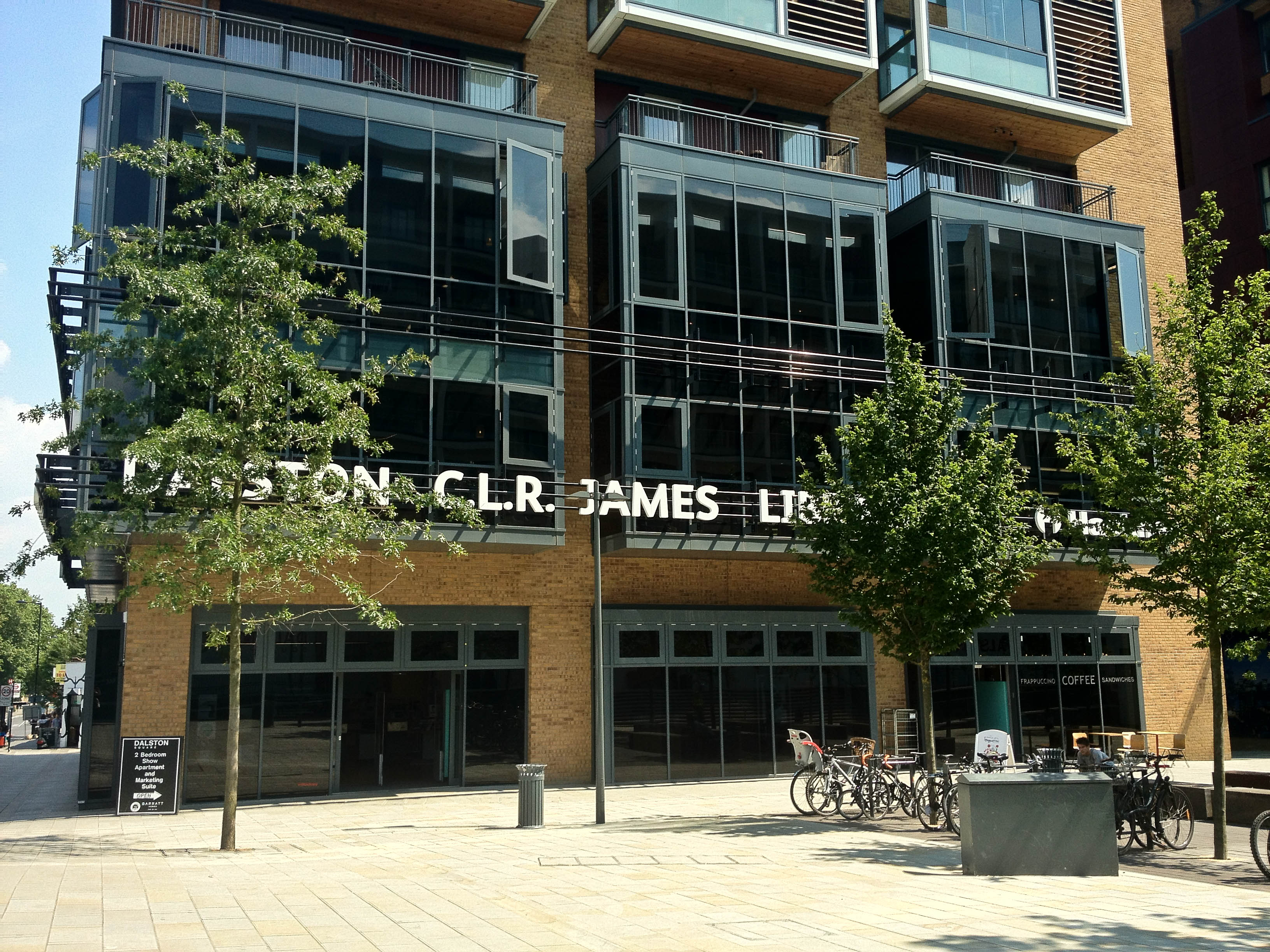 Exterior of CLR James Library, Dalston, North London